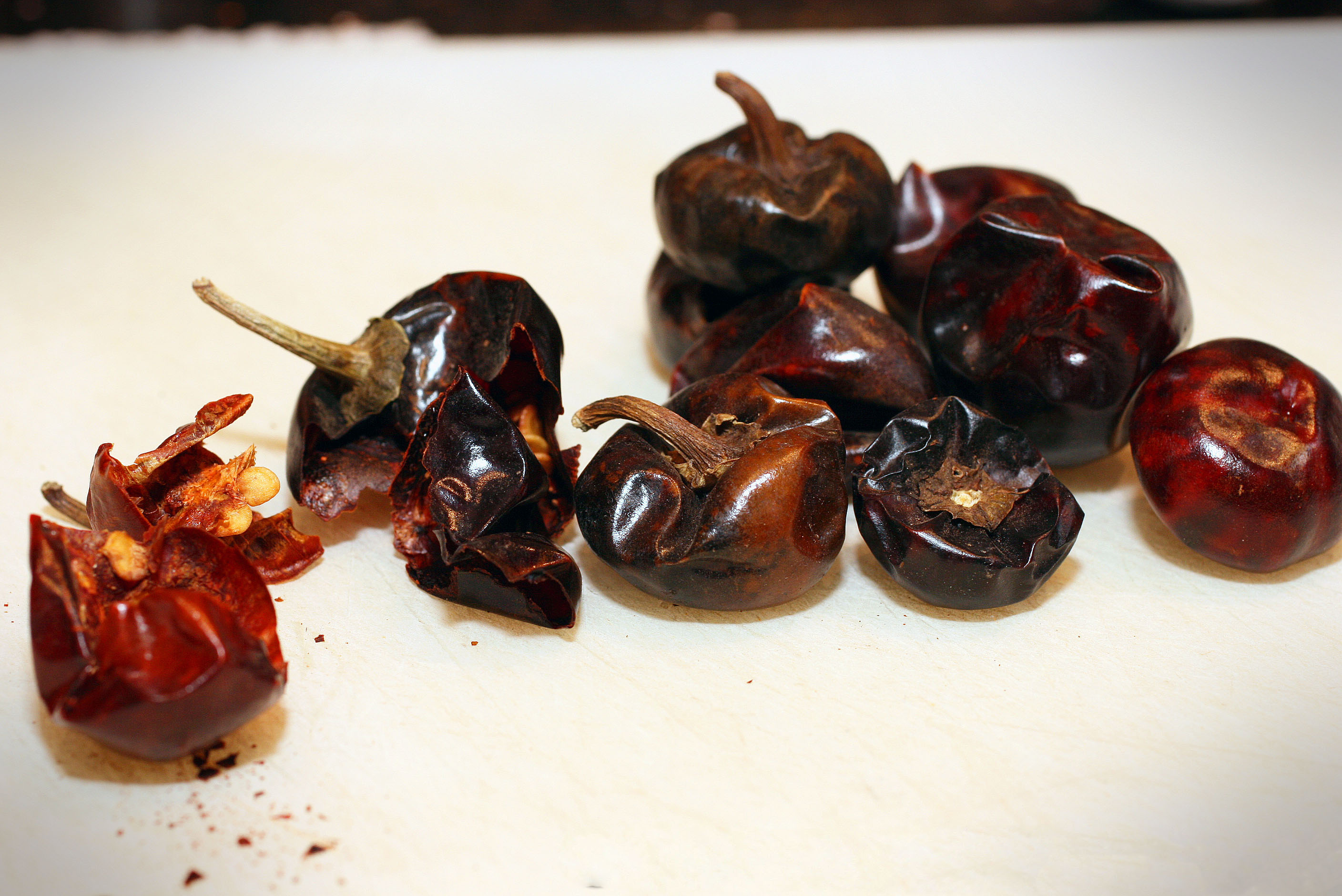 Dried cascabel chili peppers. Photo taken with a Canon EOS Digital Rebel XTi digital camera.